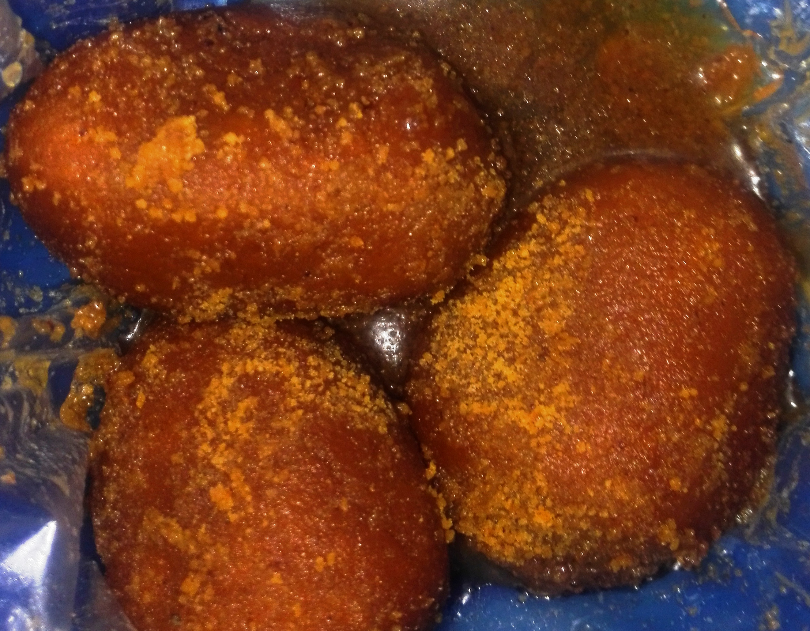 Porabarir chomchom, Tangail